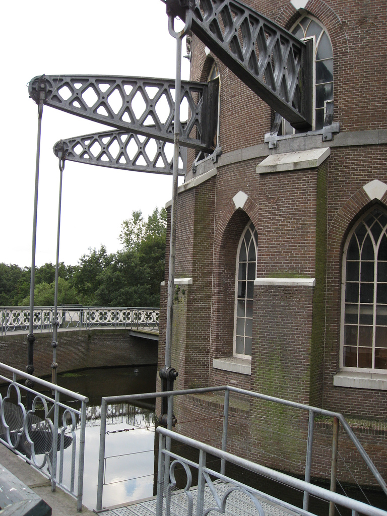 Pumping Station, Cruquius, Haarlemmermeer, The Netherlands It used to work on steam and was used to created the Haarlemmermeer (which was a lake). Nowadays it is a museum